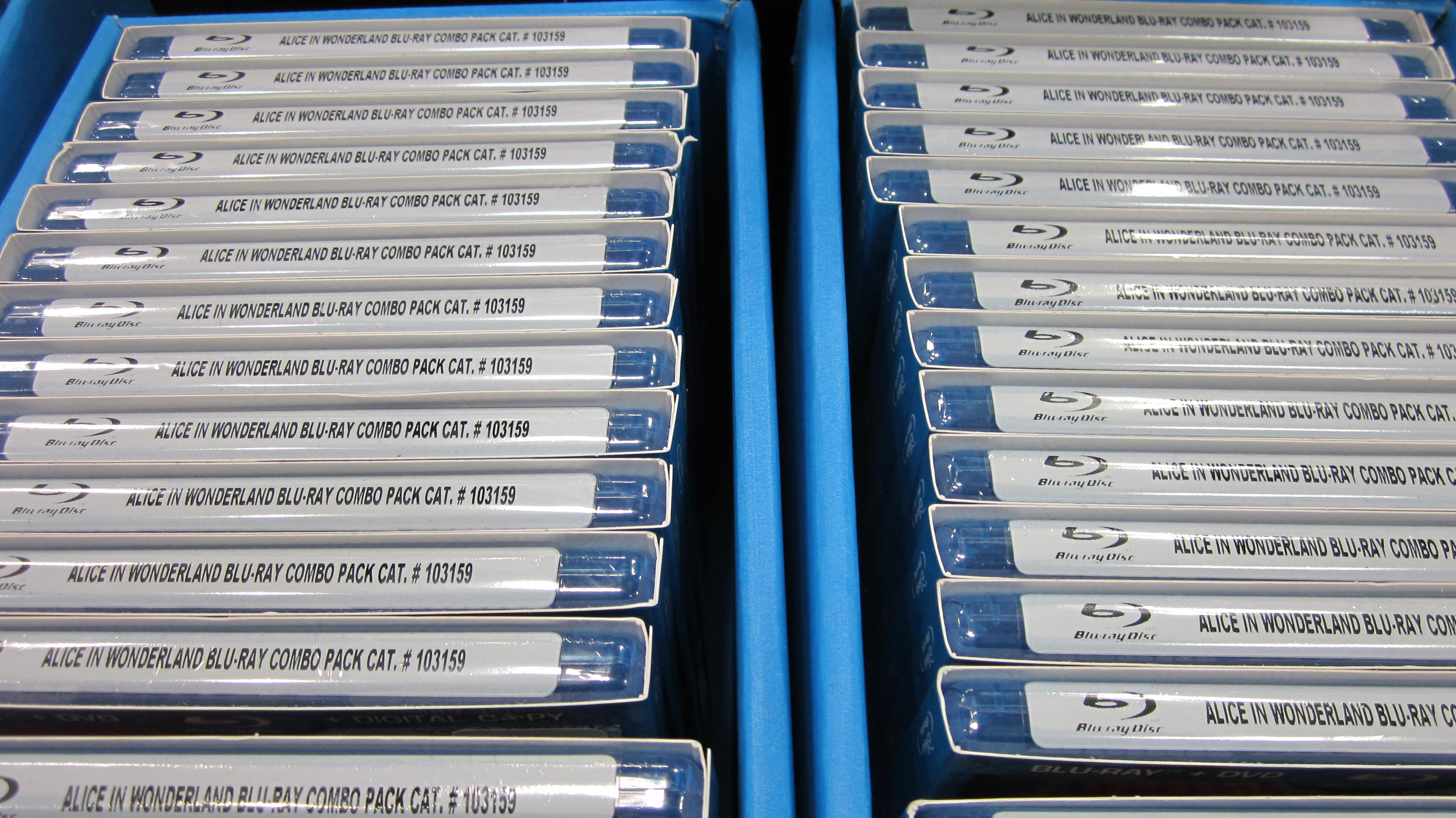 Blu-rays for the 2010 Alice in Wonderland film at Costco in South San Francisco, California on El Camino Real.